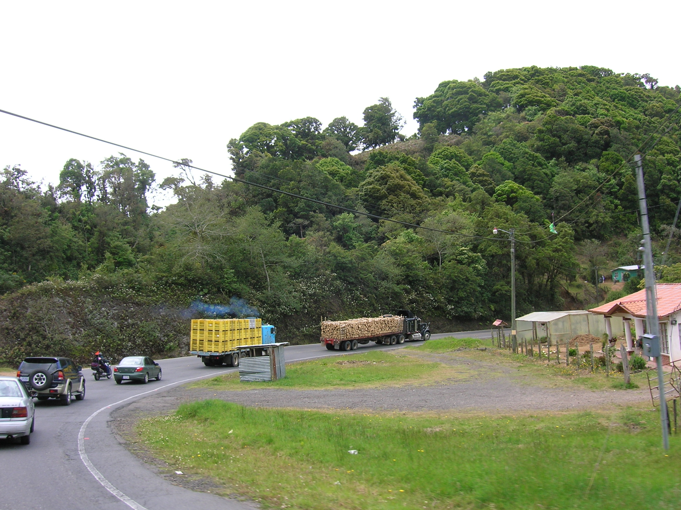 Heavy traffic on Route 2 in Costa Rica.